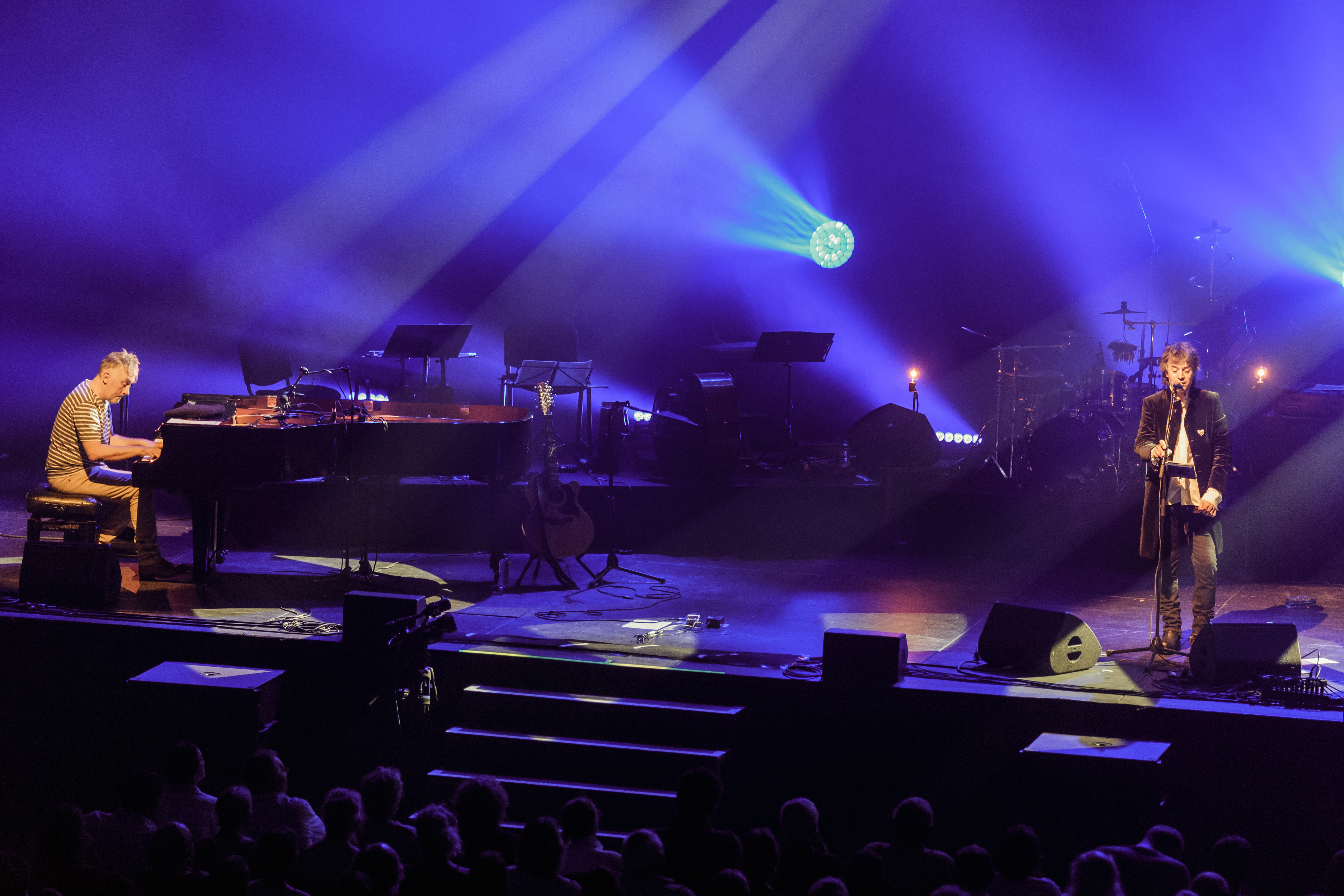 Denez Prigent accompagné de Yann Tiersen au piano lors du festival de Cornouaille le 27 juillet 2018 au Pavillon de Penvillers à Quimper.